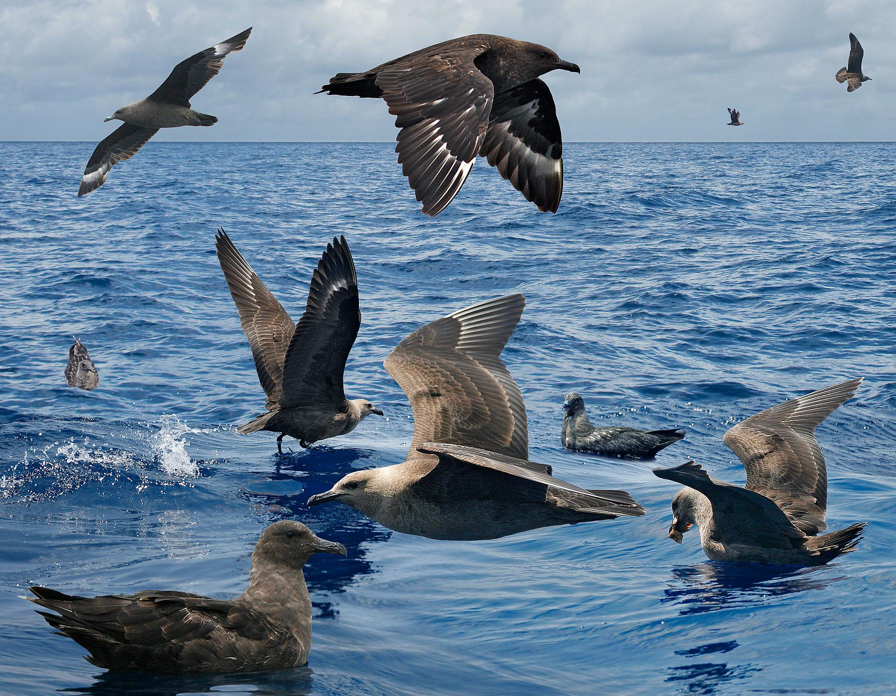 South Polar Skua From The Crossley ID Guide Eastern Birds